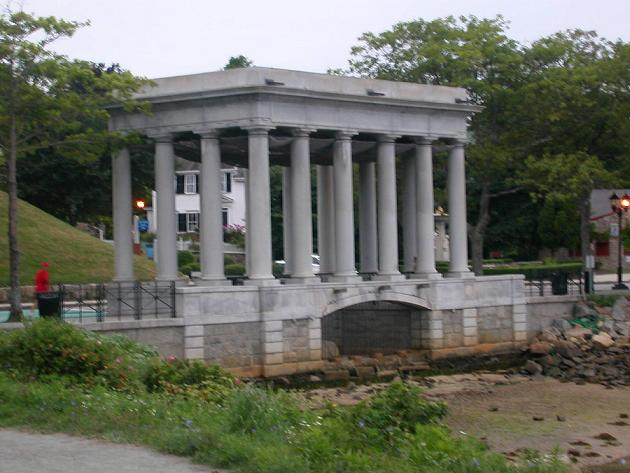 Image of Plymouth Rock Monument in Plymouth, Massachusetts